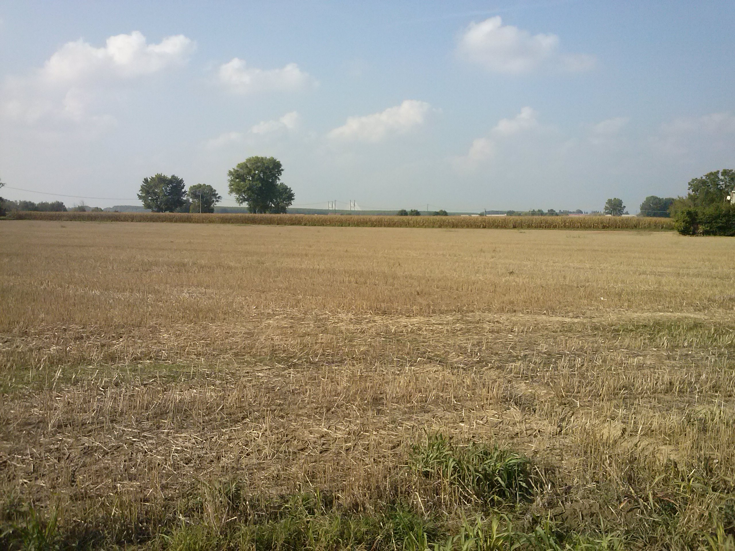 Countryside near Gerbido in the municipality of Piacenza (Italy)